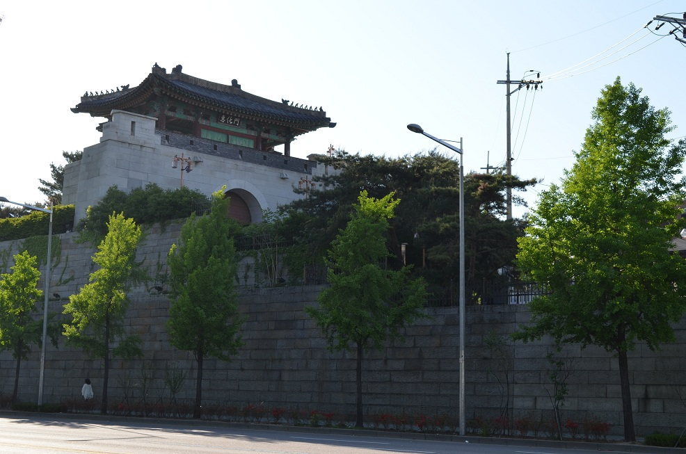 Hyehwamun Gate, also known as Northeast Gate or Dongsomun, Seoul, South Korea. Photographed May 5, 2012. Photo taken from the south, across street.